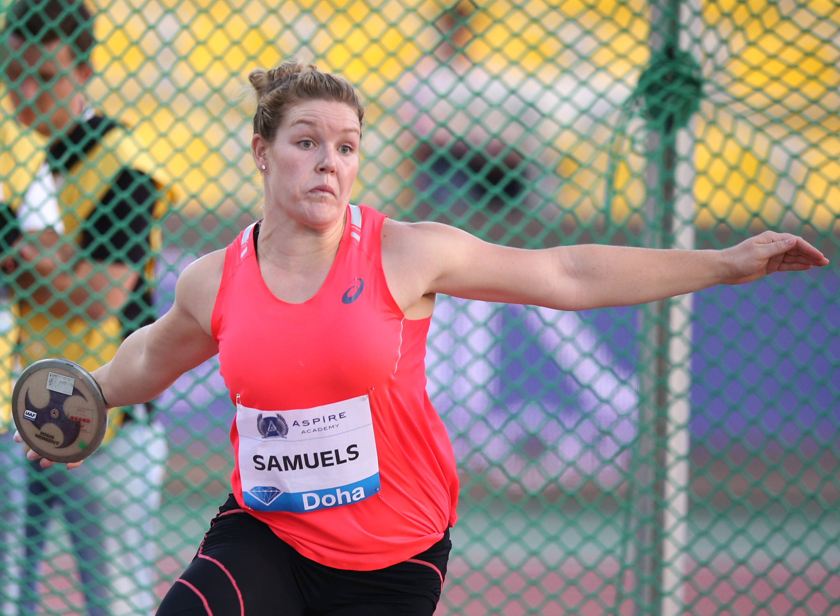 Australia's Dani Samuels competes in women's discus throw during the Doha Diamond League meet. Pic by Vinod Divakaran